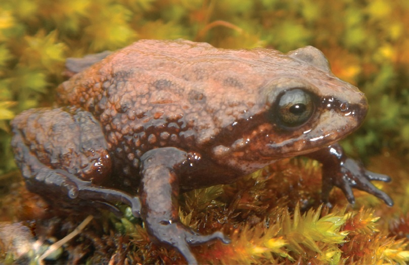 Life male holotype (MUSM 31196, SVL 18.9 mm) of Pristimantis attenboroughi in dorsolateral view